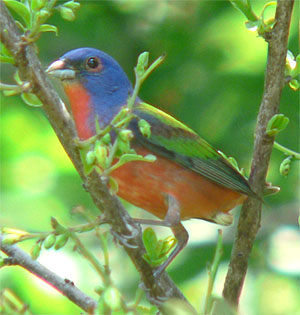 Painted Bunting